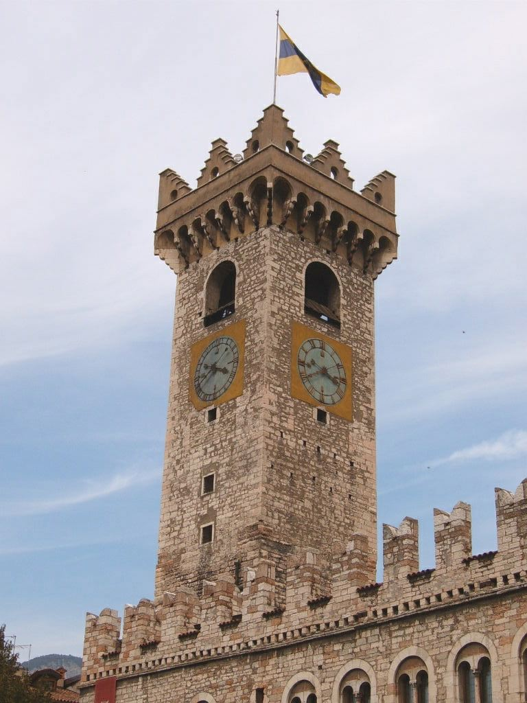 Torre Civica, Trento (Italy)